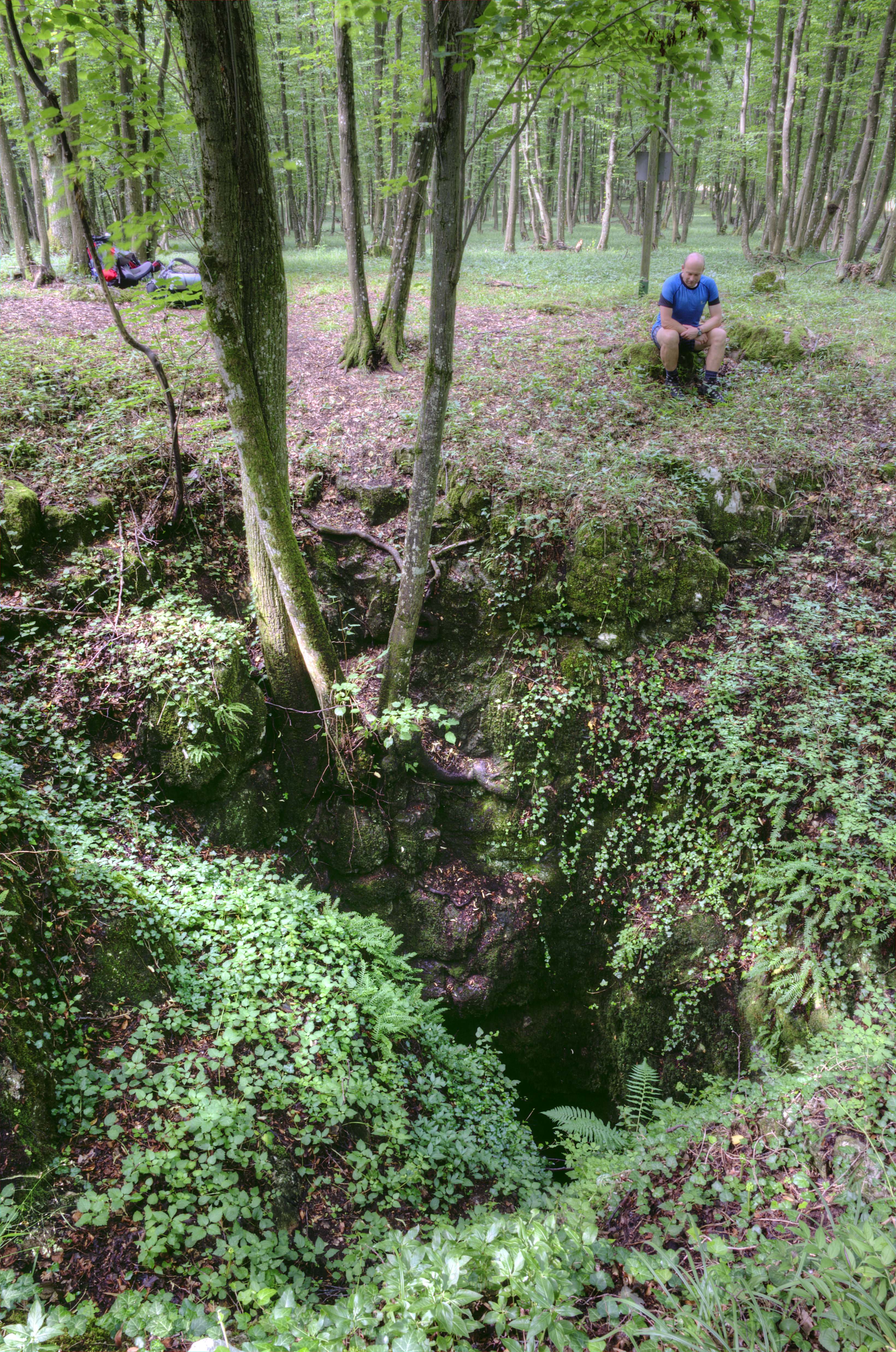 Entrance to Diviačia priepasť (literally Boar Pit Cave), Slovak Karst